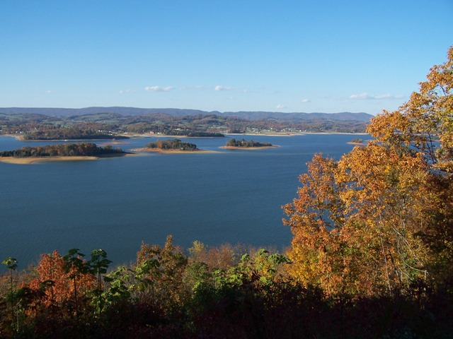 Cherokee_Lake_Morristown_TN_web.JPG